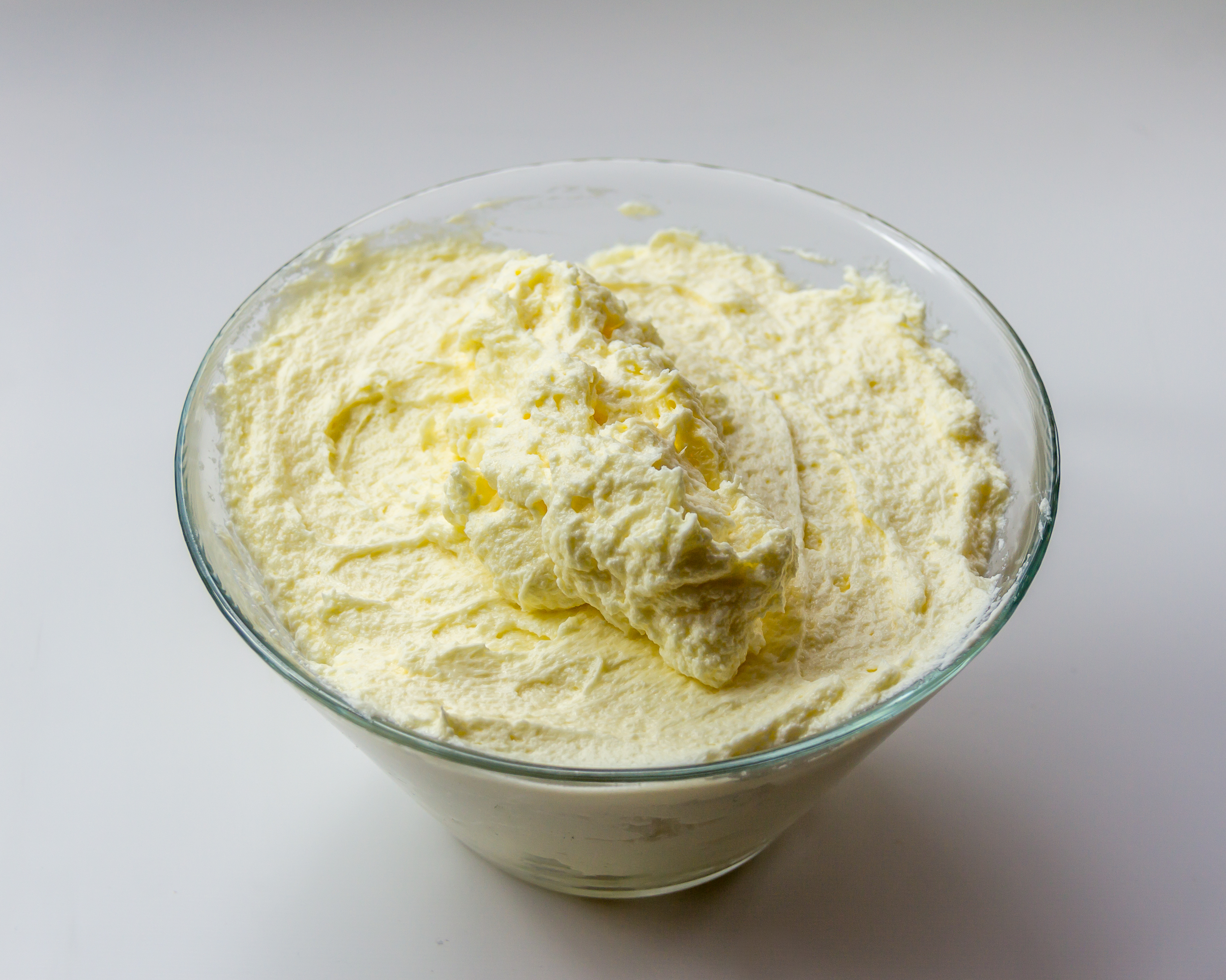 Buttercream in a glass bowl